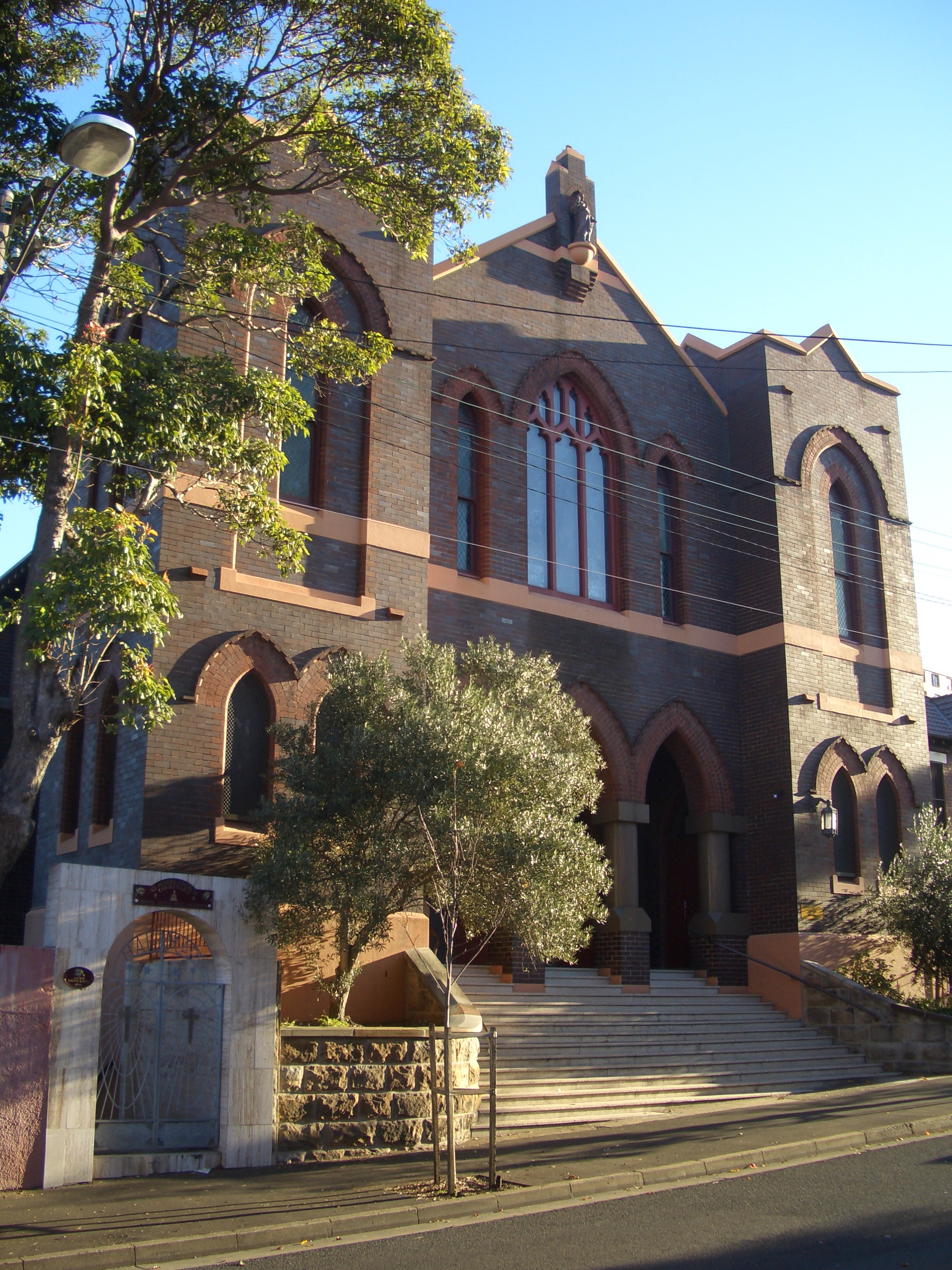 Surry Hills, St Peters Catholic Church